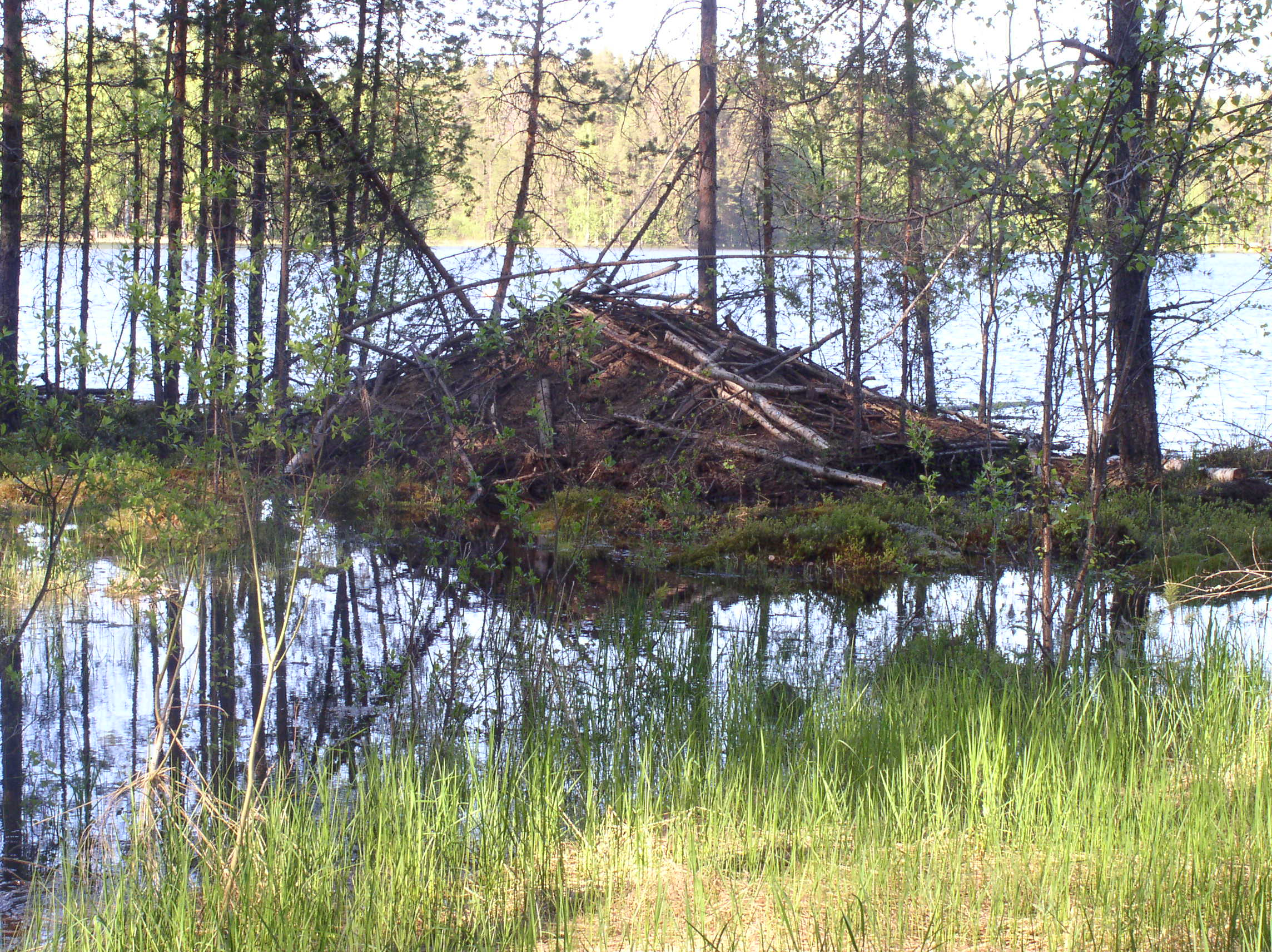 A beaver lodge of Canadian Beaver on the shore of Lake Saimaa in Enonkoski, Finland.